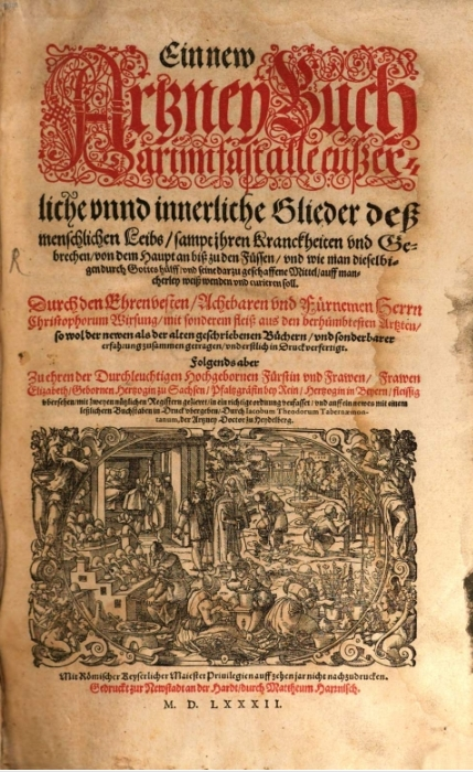 Tabernaemontanus, Ein new Artzney Buch title page